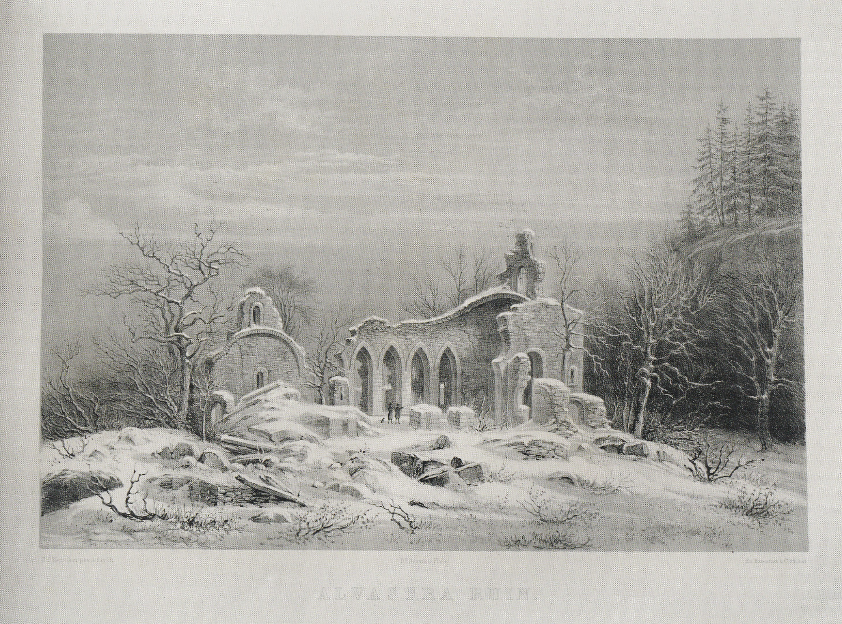 Alavstra monastery ruin, Östergötland, Sweden